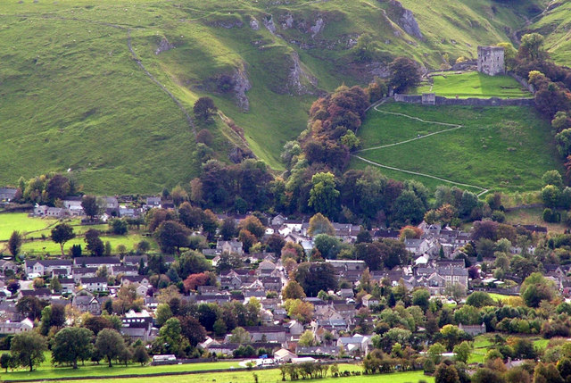 Castleton Castleton photographed from Lose hill. The zigzag path to Peveril Castle can be seen in the top right hand corner, behind the castle are the limestone rocks of Cave Dale.